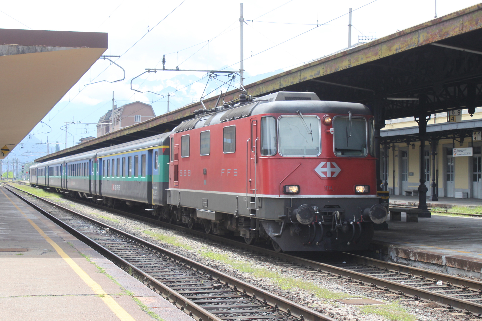 SBB CFF FFS Re 4/4 II 11141 (formerly a Swiss Express unit) at Domodossola train station.